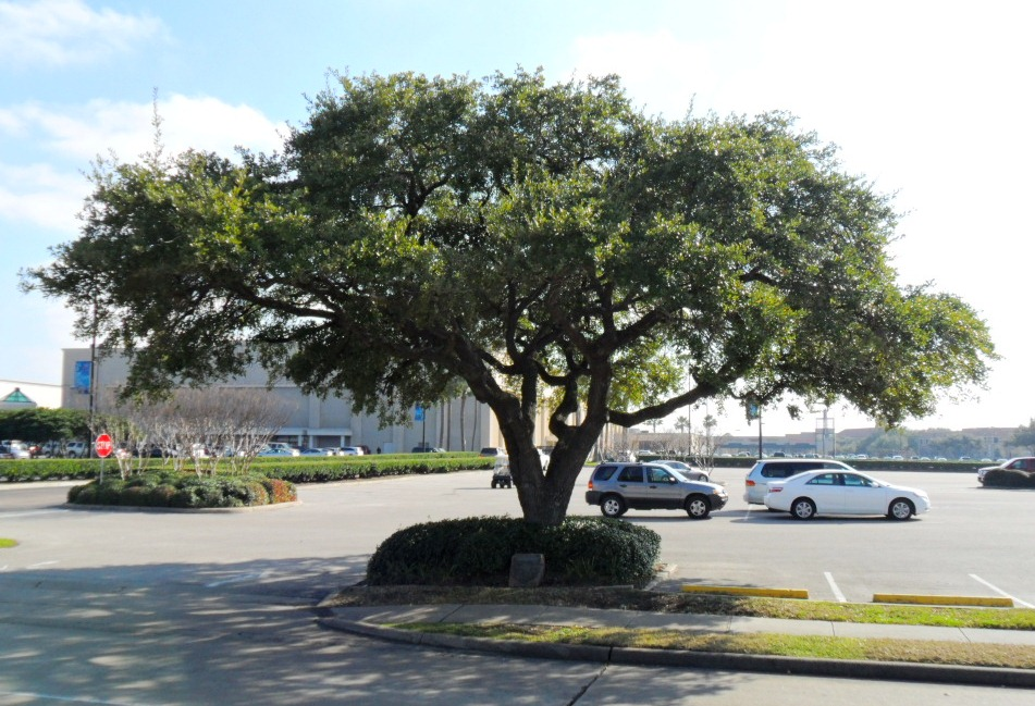 "Hero Tree" at Meyerland Plaza shoping center, Houston, Texas, in honor of Capt. Gary L. Herod